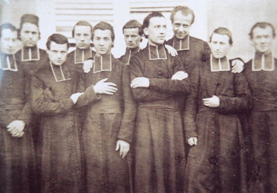 Missions Etrangeres de Paris_Departures_of_1856